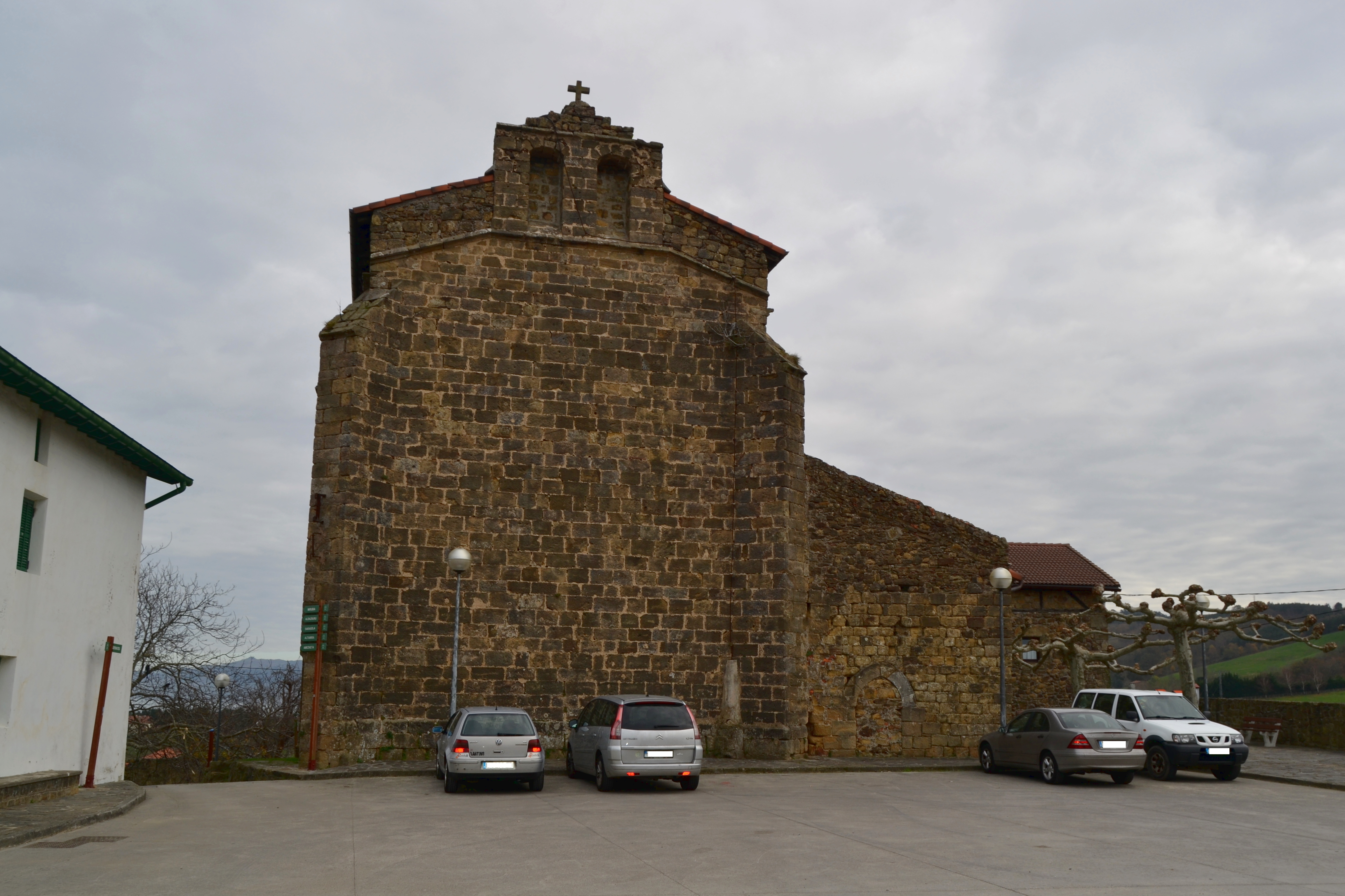 San Martin hermitage, Askizu, Getaria. Gipuzkoa, Basque Country.